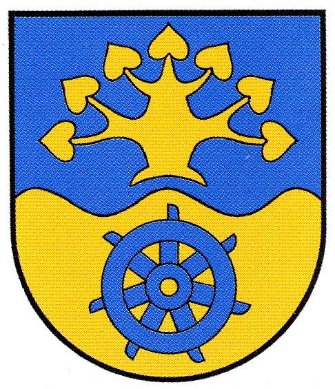 Coat of Arms of Räbke